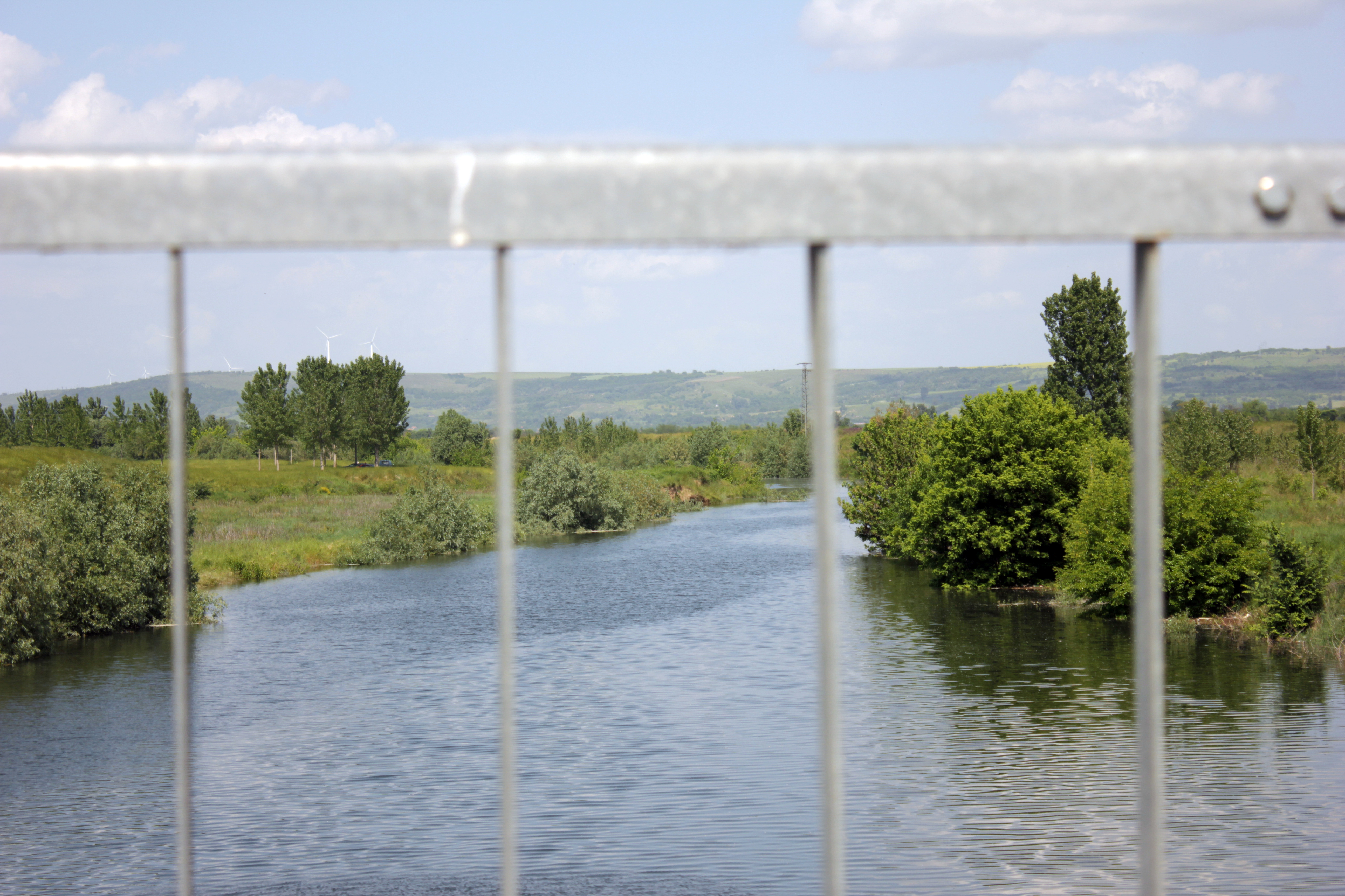 River Vit at Gulyantsi